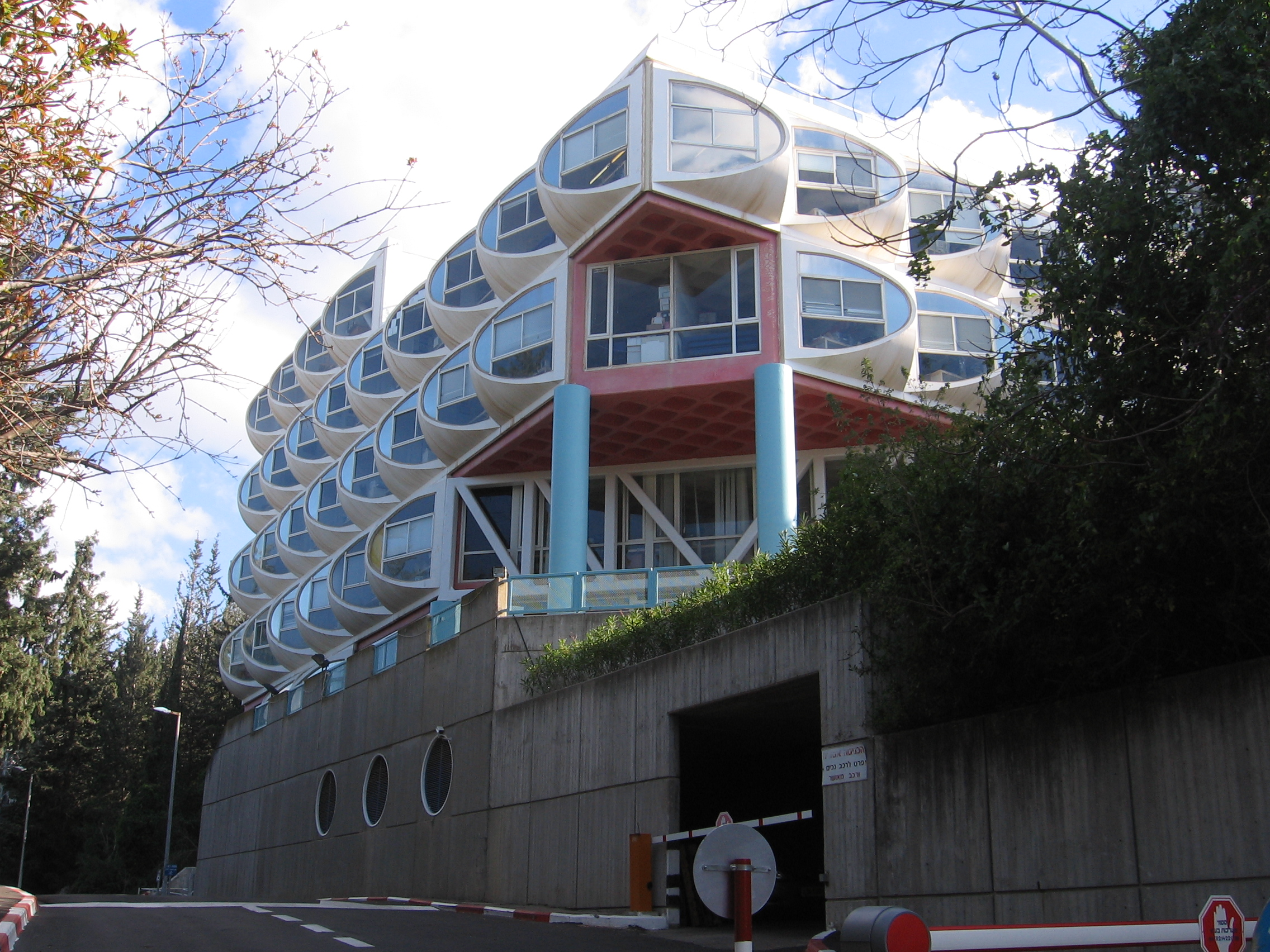 The Technion's faculty of Industrial Engineering and Management - Bloomfield building.